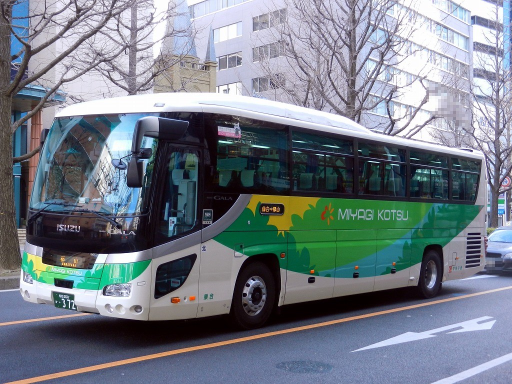 Miyagi Kotsu (Sendai-Kita depot) Isuzu Gala (LKG-RU1ESBJ)highwaybus "Sendai-Koriyama"